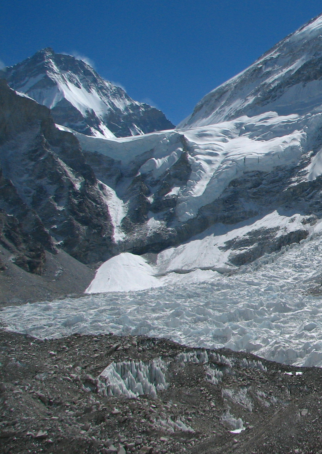 The Khumbu icefall and Mt Everest's peak is visible sticking out back right. The mountain is so hard to get a good look at from the Nepal side. The route to Everest starts up the long hazardous and circuitous Khumbu icefall to Camp 1. At this time of the year, climbers were doing acclimatization runs between BC, Camp 1 and Camp 2.